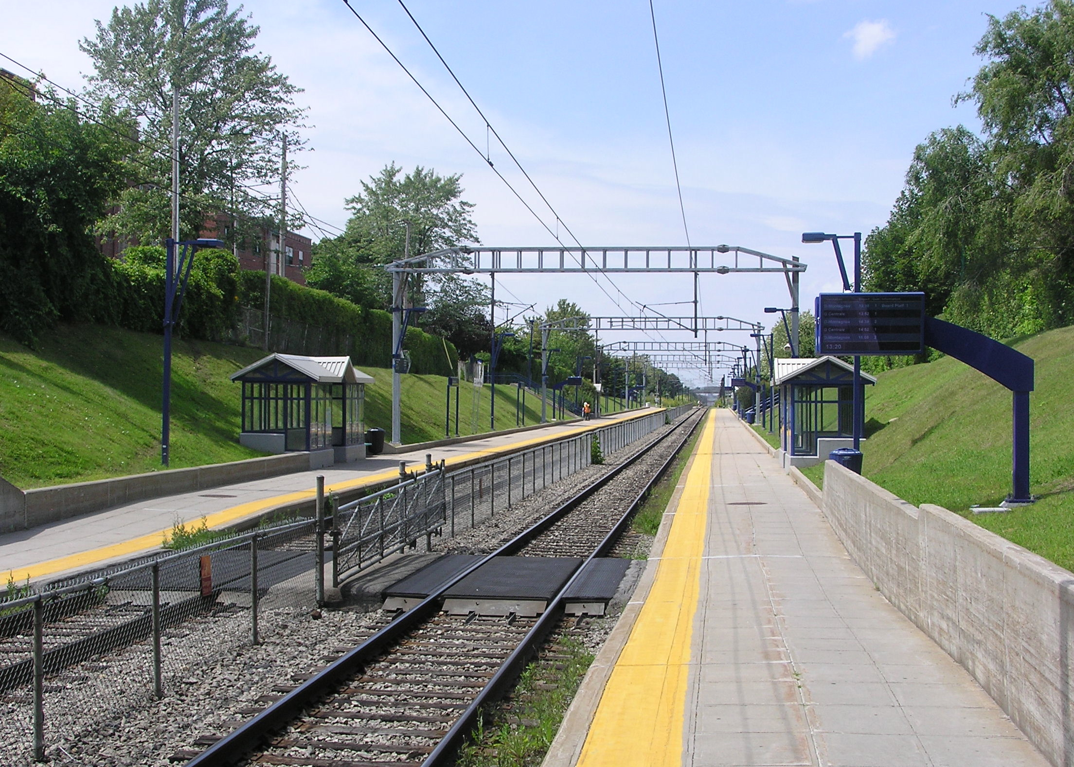 Mont-Royal AMT Station in Mount Royal, Canada.